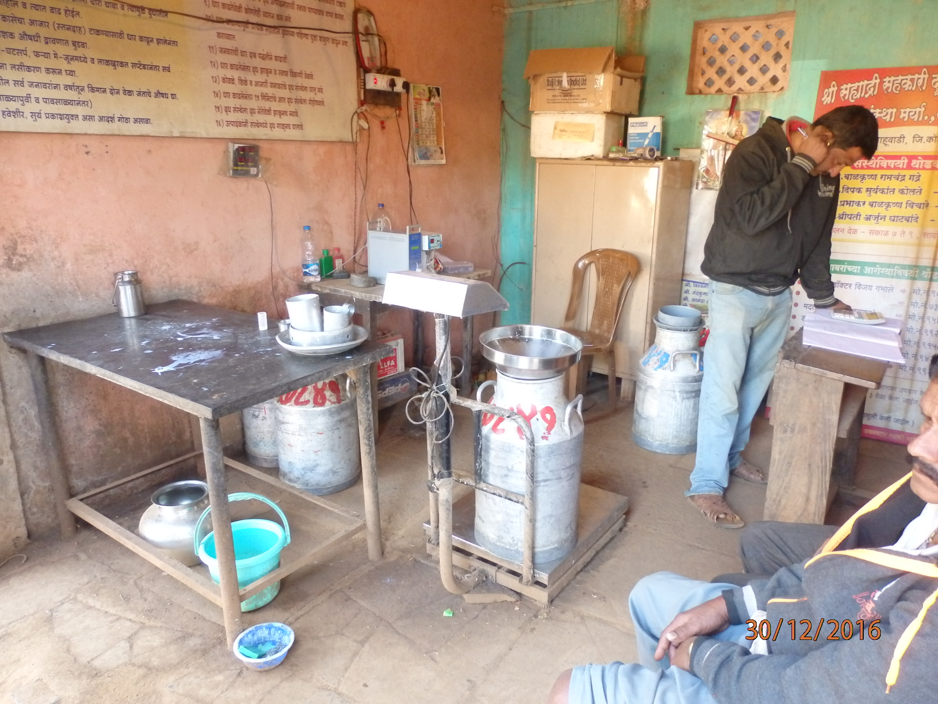 Milk Collection Center in Kolhapur District